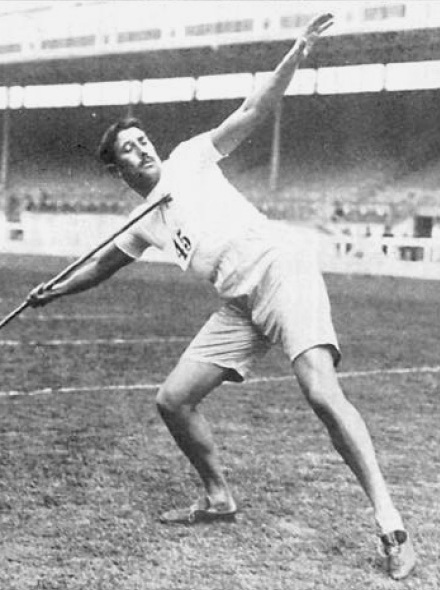 Swedish athlete Erik Lemming in the javelin competition at the Summer Olympics 1908 in London.